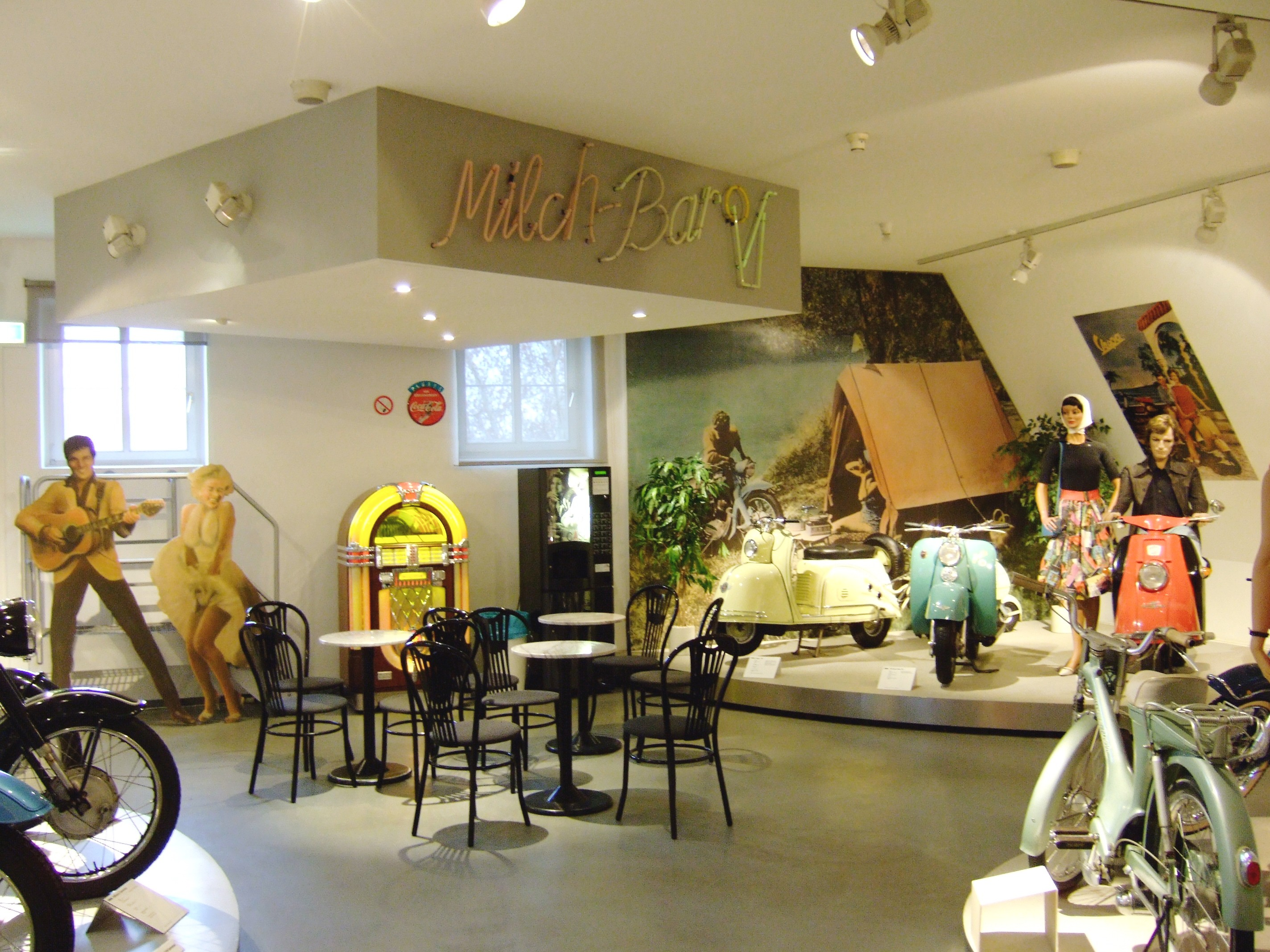 The „Milk Bar“ of the Deutsches Zweirad- und NSU-Museum